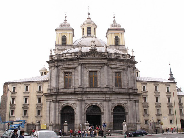 Basílica de San Francisco el Grande (Basilica of St. Francis of Assisi) (Madrid, Spain, 1761–1784). Architect: Francisco Cabezas (1709–1773).